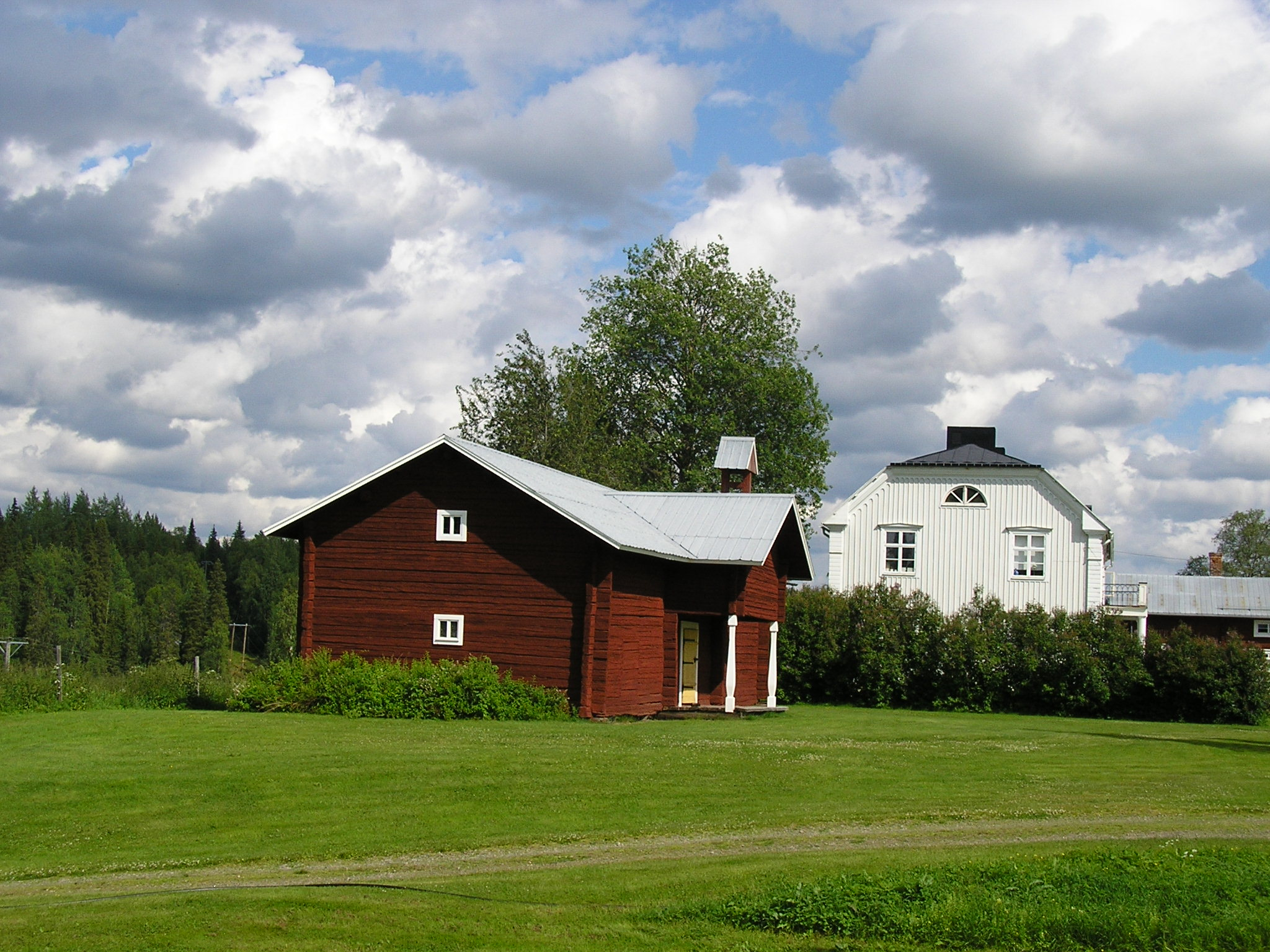 Kengis-talo